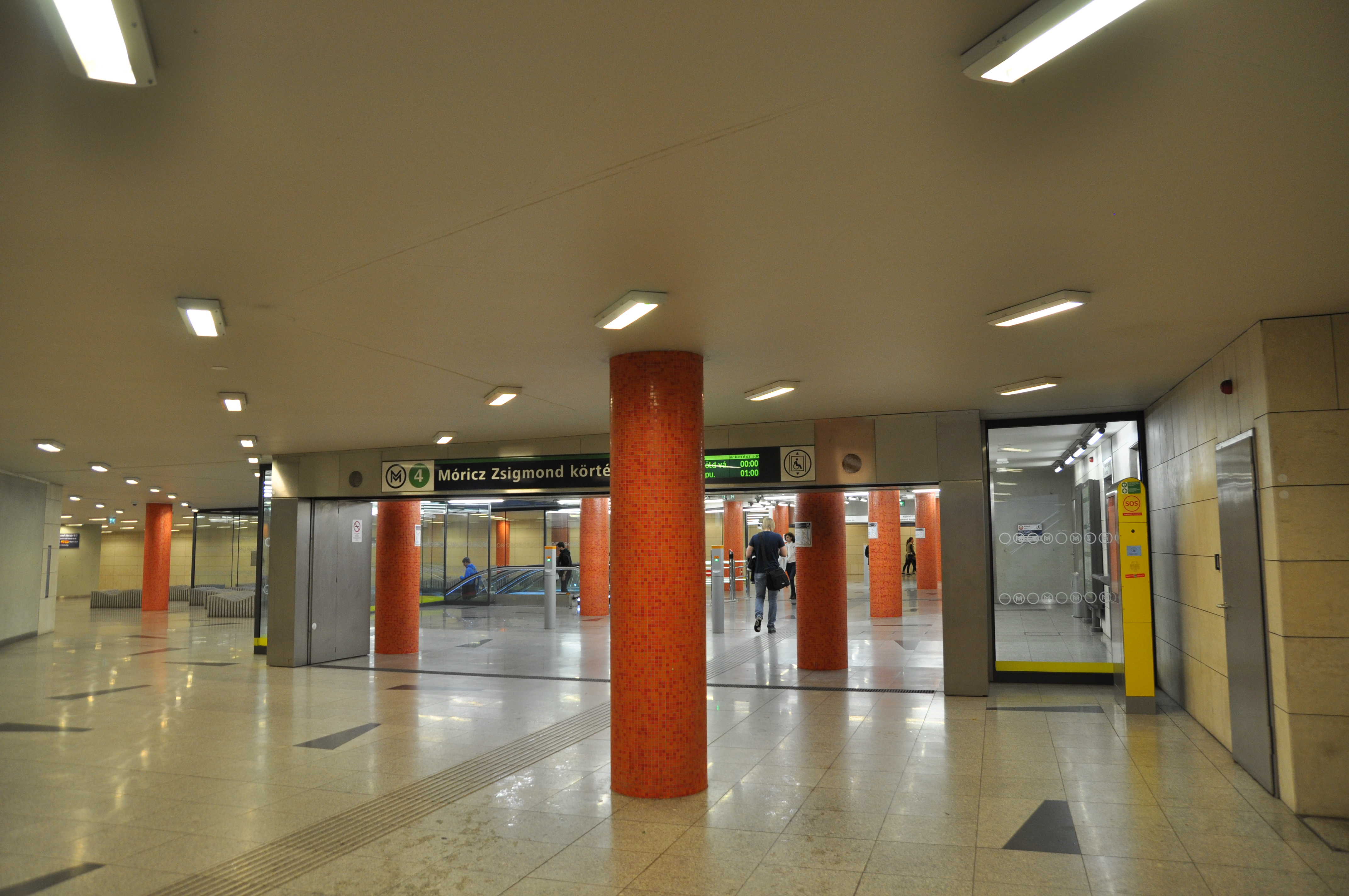 Budapest, metró 4, Móricz Zsigmond körtér